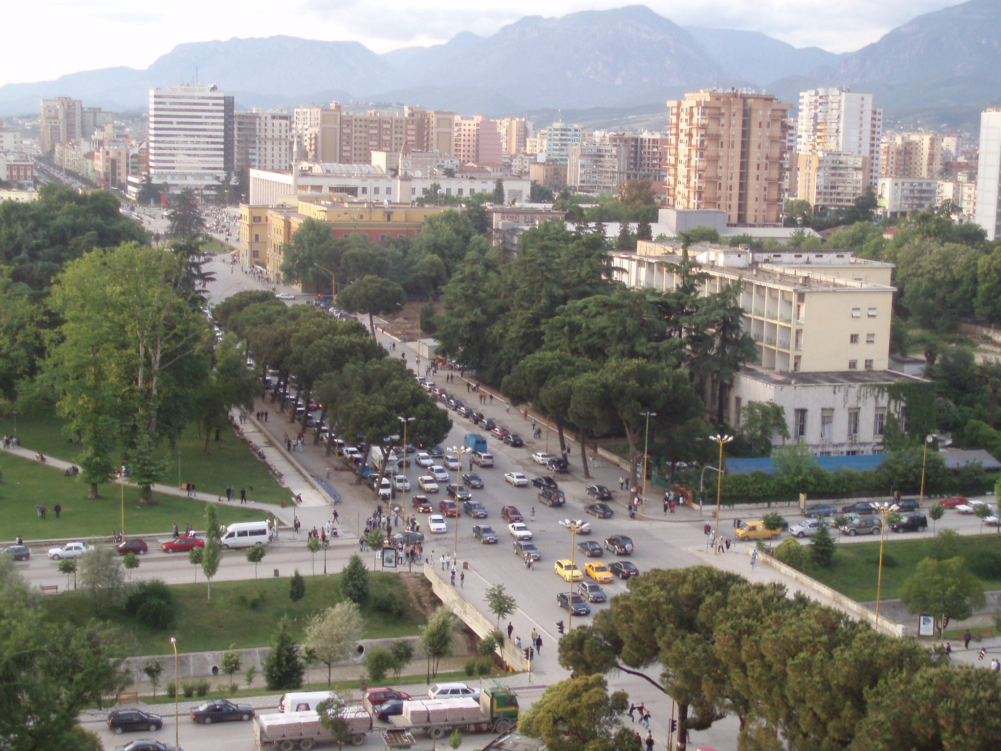 The main Bajram Curri Boulevard in Tirana, Albania